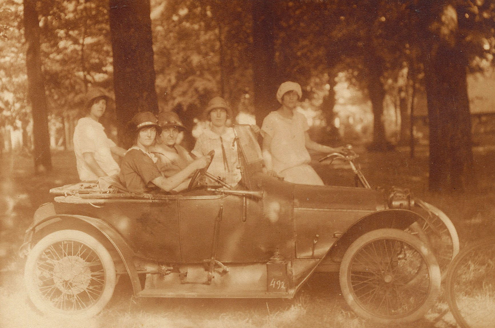 an unknown Humber Humberette from about 1912